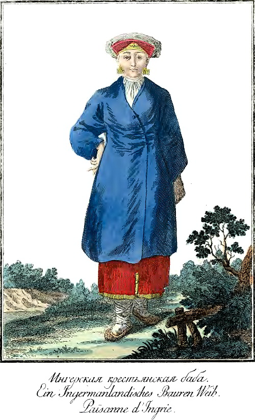 Ethnic women clothes of Izhora nationality (near Saint-Petersburg, Russia in XVIII century).